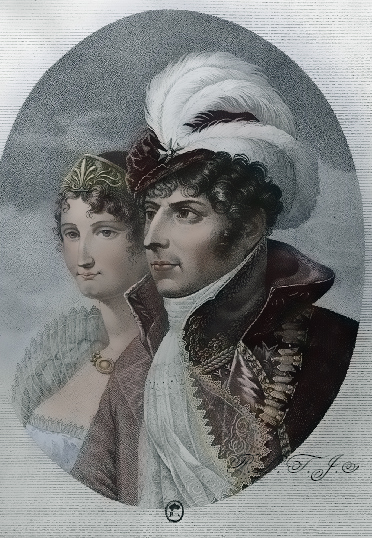 Portrait of Bernadotte and Desiree